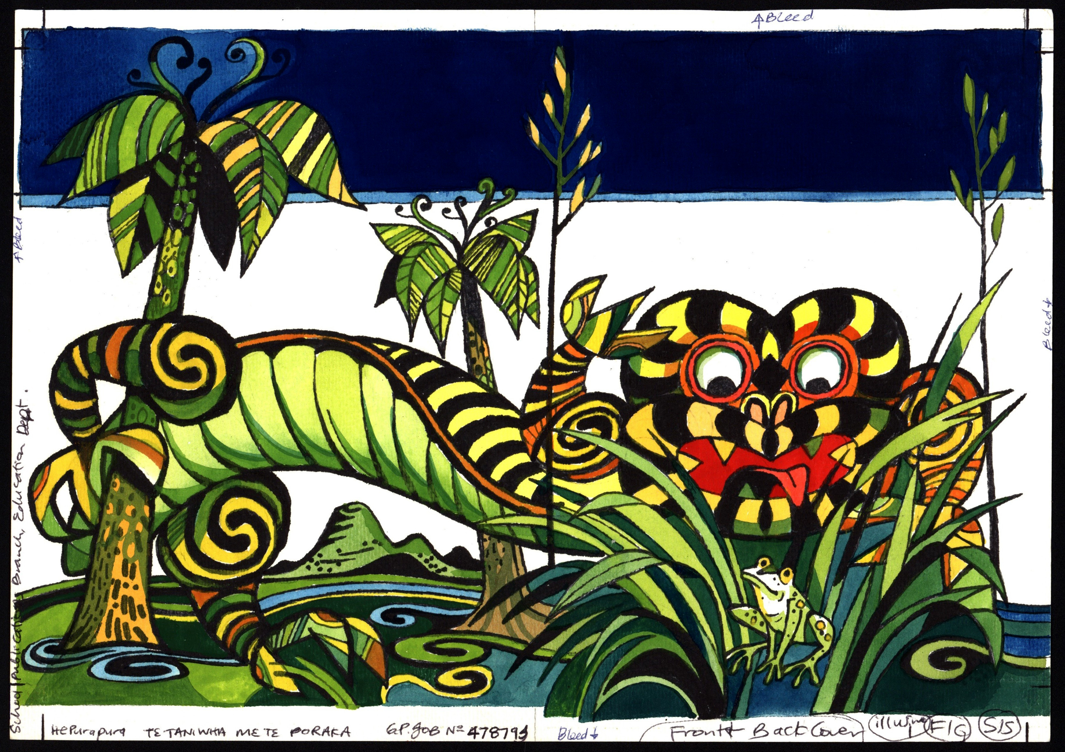 Te Wiki o te Reo Māori 2016 (Māori Language Week) takes place between Monday 4 July and Friday 8 July. This special week provides an opportunity to celebrate and learn te reo Māori, helping to secure its future as a living, dynamic, and rich language. The kaupapa for Te Wiki o te Reo Māori 2016 is ‘ākina to reo’ – behind you all the way, which is about using te reo Māori to support people, to inspire and to cheer on. To celebrate te wiki we are featuring Te Reo Māori learning resources held within in our archives. A staple of children's literacy in New Zealand since 1963 are children’s books published by the Ministry of Education. A large number have been produced in te reo Māori for students (and their parents), and feature iconic New Zealand writers and artists. Archives New Zealand holds a number of these books, as well as their original artwork. The image above is material either commissioned or created in the production of Te taniwha me te poraka, an issue from the Junior Journals series He Purapura, aimed at fluent readers. The story was written by Karin Mahuika, and the artwork attributed to Murray Grimsdale . Title: He Purapura - Te Taniwha Me Te Poraka - Murray Grimsdale Archives reference: ADCT 699 W5428 Box 25 21/16 For further enquiries please For updates on our On This Day series and news from Archives New Zealand, follow us on Twitter Caption information from National Library of New Zealand: Material from Archives New Zealand